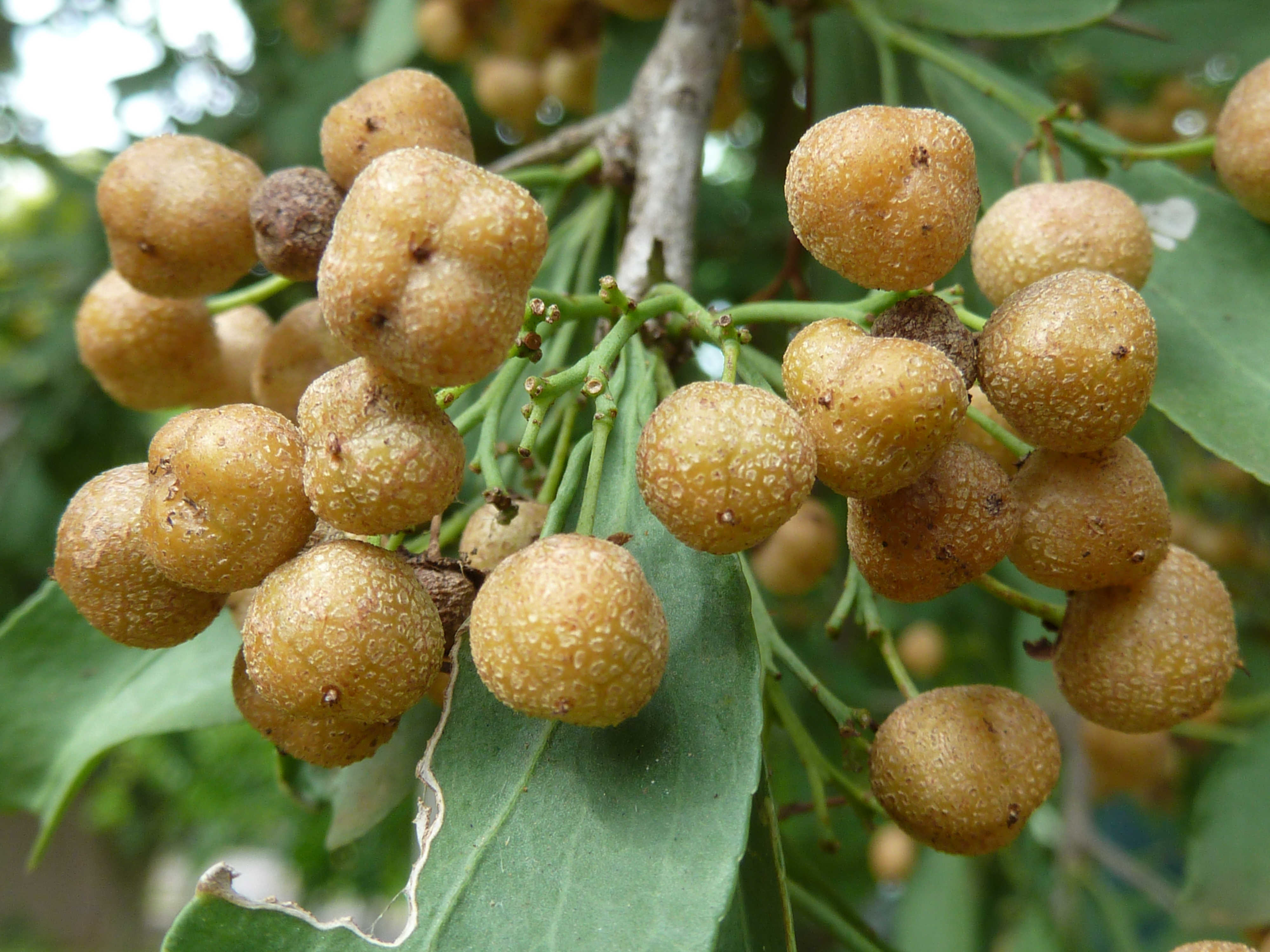 Fruit of a Common spike-thorn in Lynnwood Glen, Pretoria, South Africa